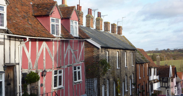 Descending roofline, Prentice Street Looking above the line of parked cars to concentrate on the buildings themselves.